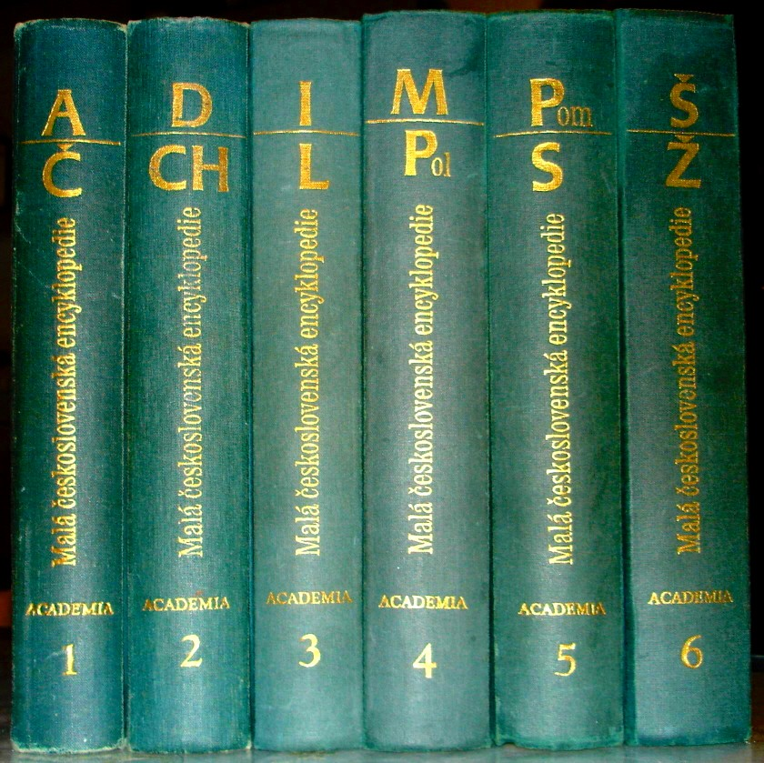 Small Czechoslovak encyclopedia (1984-1987)